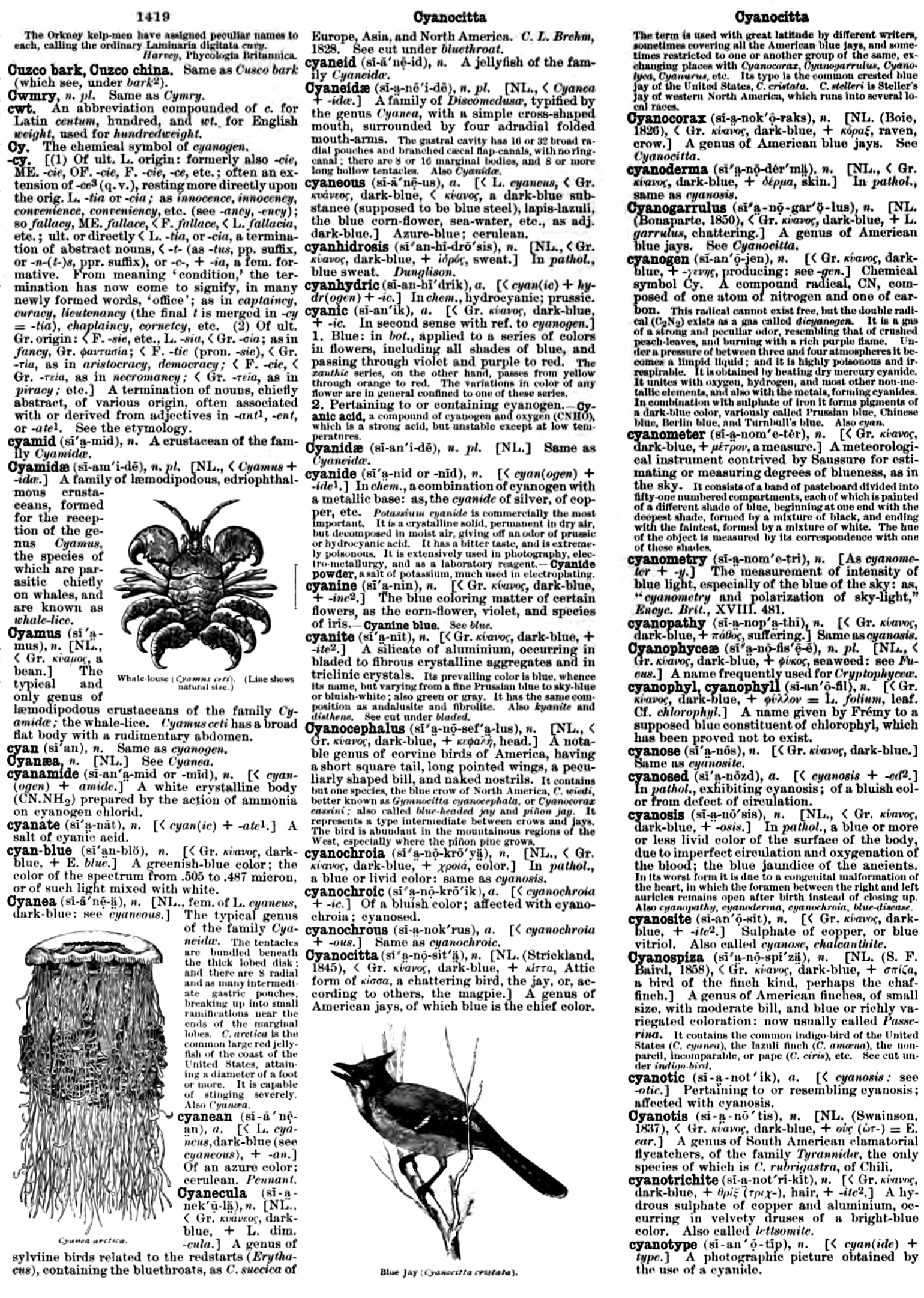 Three columns of dictionary about "cyan". Depicts Cyamus ceti and Cyanocitta cristata and Cyanea arctica.